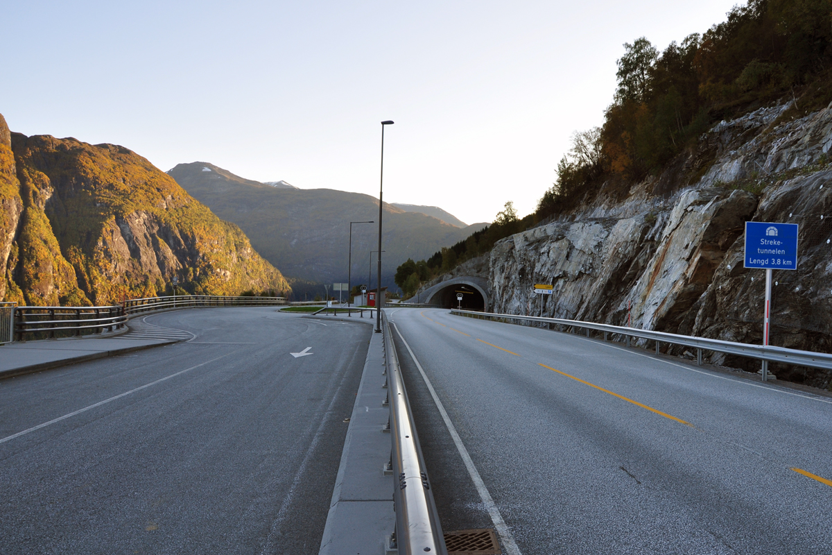 The north-eastern entrace to the Streke tunnel after the extension in 2013. The new picnic area with viewpoint to the left.